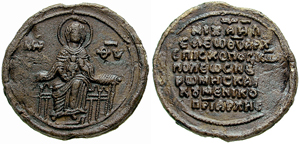 Michael III (of Anchialos), Patriarch of Constantinople. January 1170-March 1178 AD. Lead 44mm Seal (53.98 gm). The Virgin Platytera, nimbate, wearing chiton and maphorion, seated facing on an arched thokos of six legs, holding the infant Christ (also nimbate) in her lap, who is clad in a chiton and himation; MR-QV / MIXAHL/ELEwQVARCI/EPICKOPOC KwN/POLEwCNE[AC]/RwMHCKAI[OI]/KoMENIKO[C]/PRIARCHC, inscription in six lines. Zacos II, 26; Laurent V/1, 24. Good VF, nice brown and black patina, mild porosity. Rare.